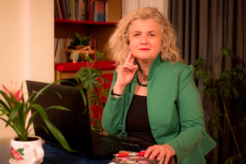 Tatjana Gogoska, Macedonian writer